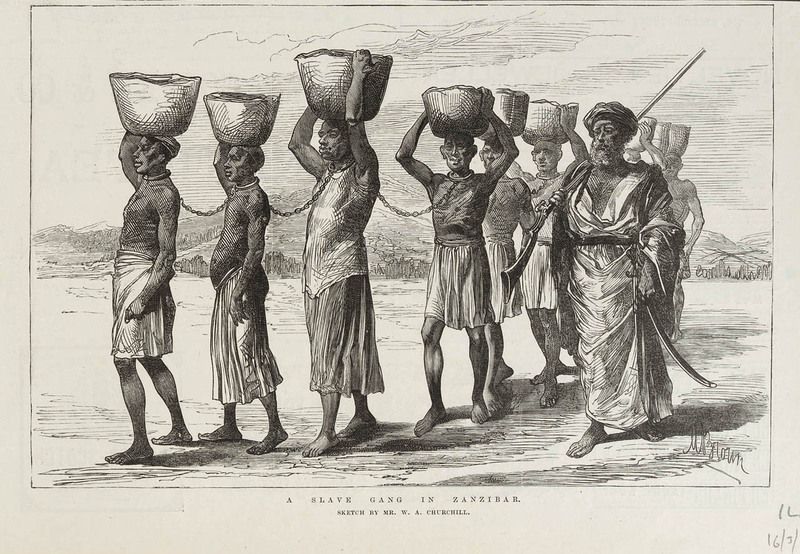 "A Slave Gang in Zanzibar" by W.A. Churchill.